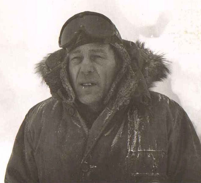 Helmut P. Jaron, c. 1962-63, in Antarctica